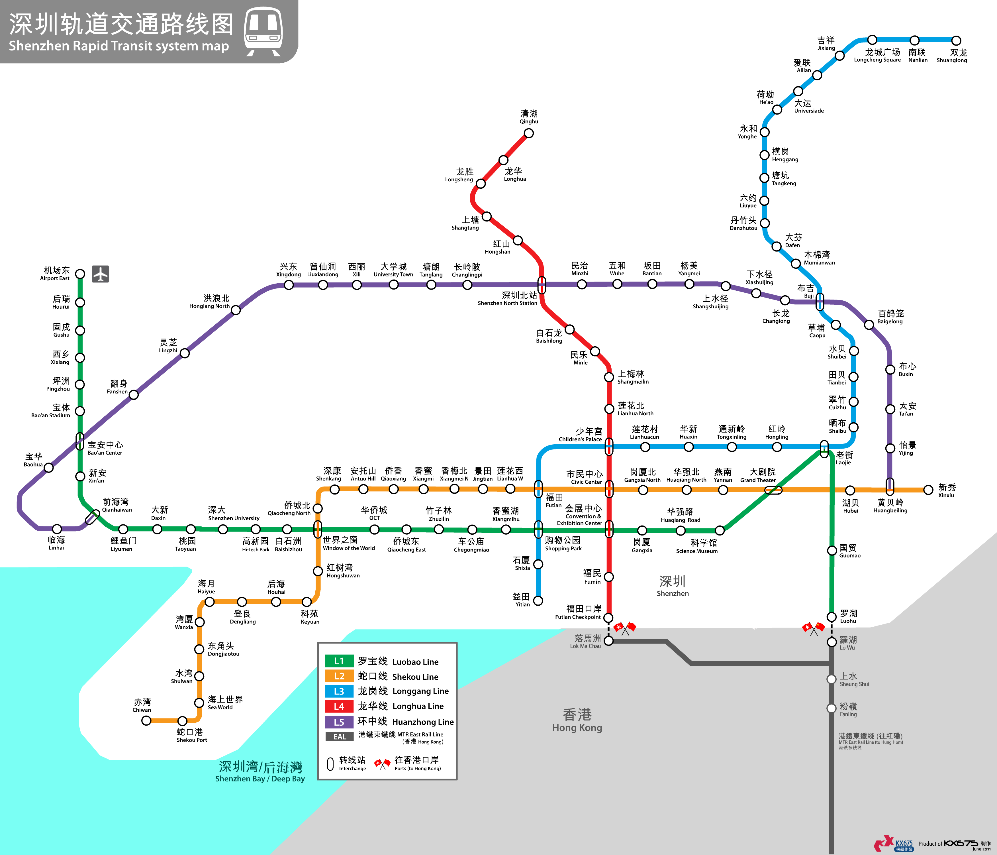 Shenzhen Metro bilingual system diagram as of 2010